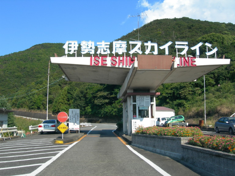 IseShima Sky-line;a road between Ise city and Toba city Mie Prf. Japan.